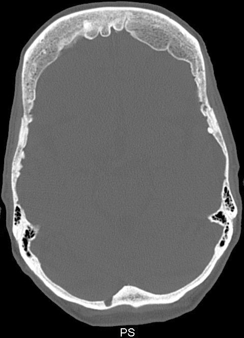 Hyperostosis frontalis interna, CT